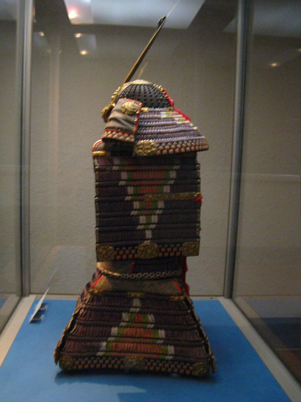 Samurai o-yoroi armour from the Tokyo National Museum (side view).